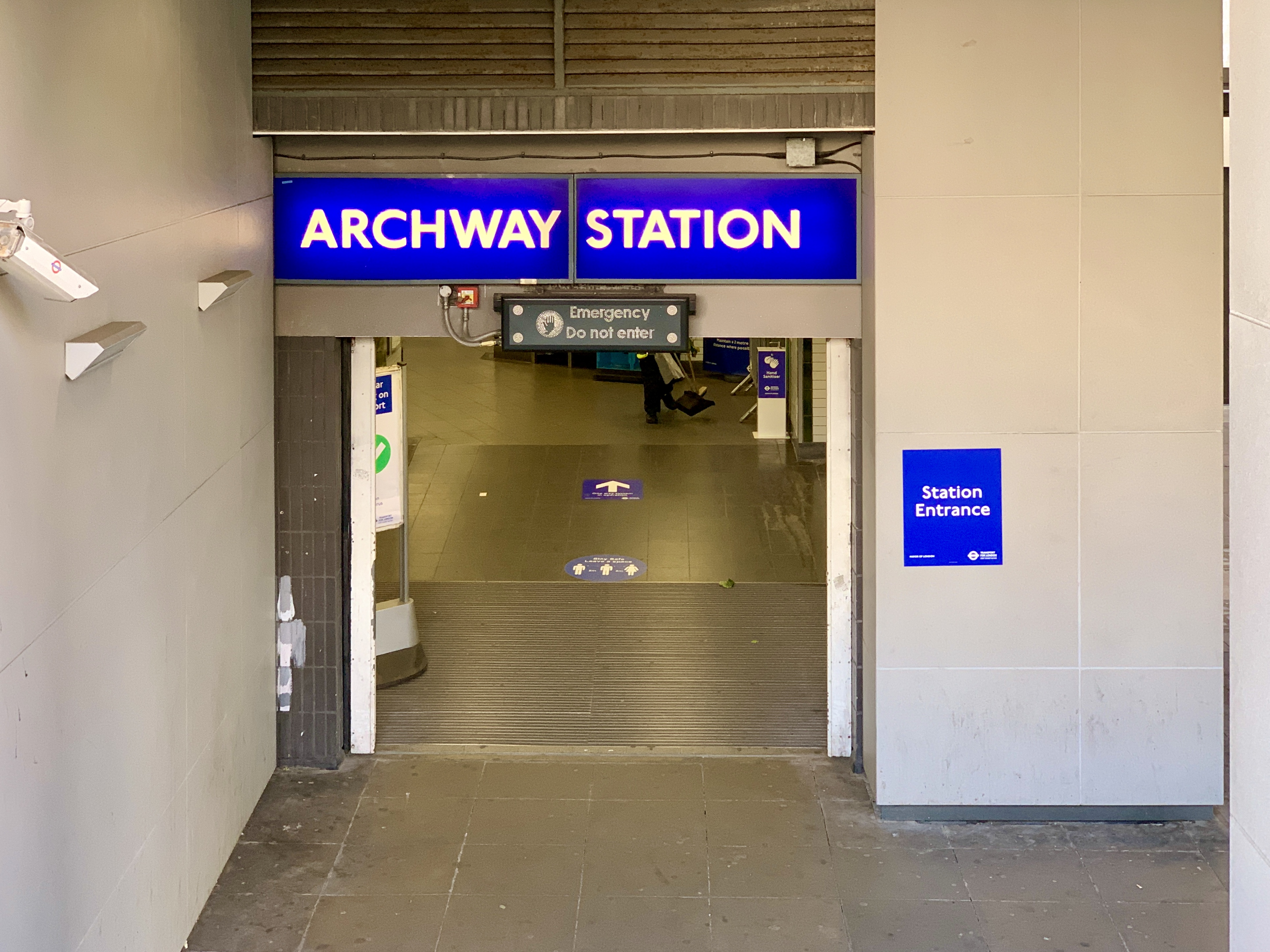 Entrance to Archway tube station, under Archway Tower Taken during my Northern Line Tube Walk.